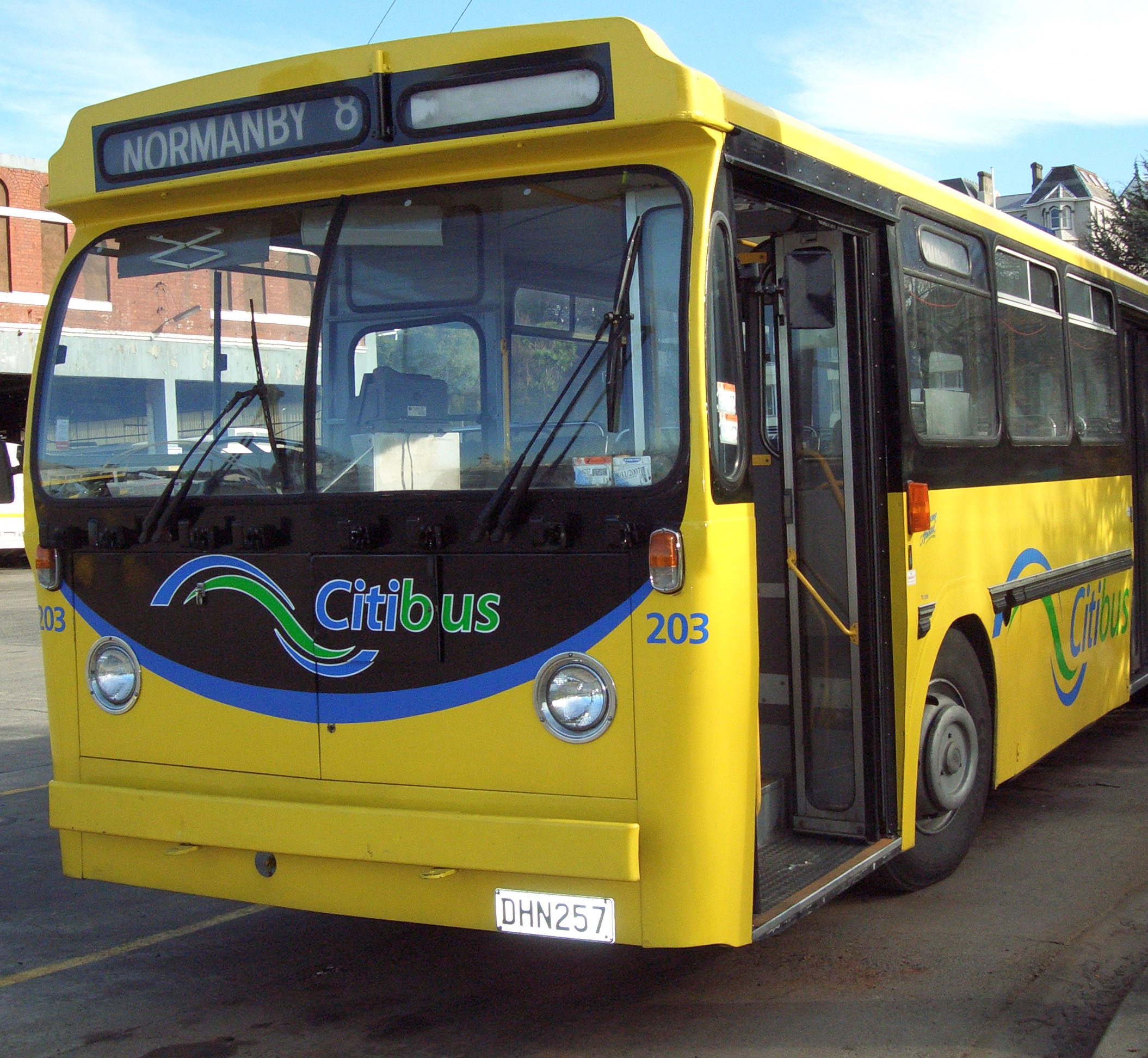 This Leyland Leopard bus, with NZMB body designed by Carrosserie Hess originally operated by Dunedin City Transport, a department of the Dunedin City Council which is now a company called Citibus Ltd. Photo by Blueskin Media uploaded byNankai 22:06, 23 September 2007 (UTC)